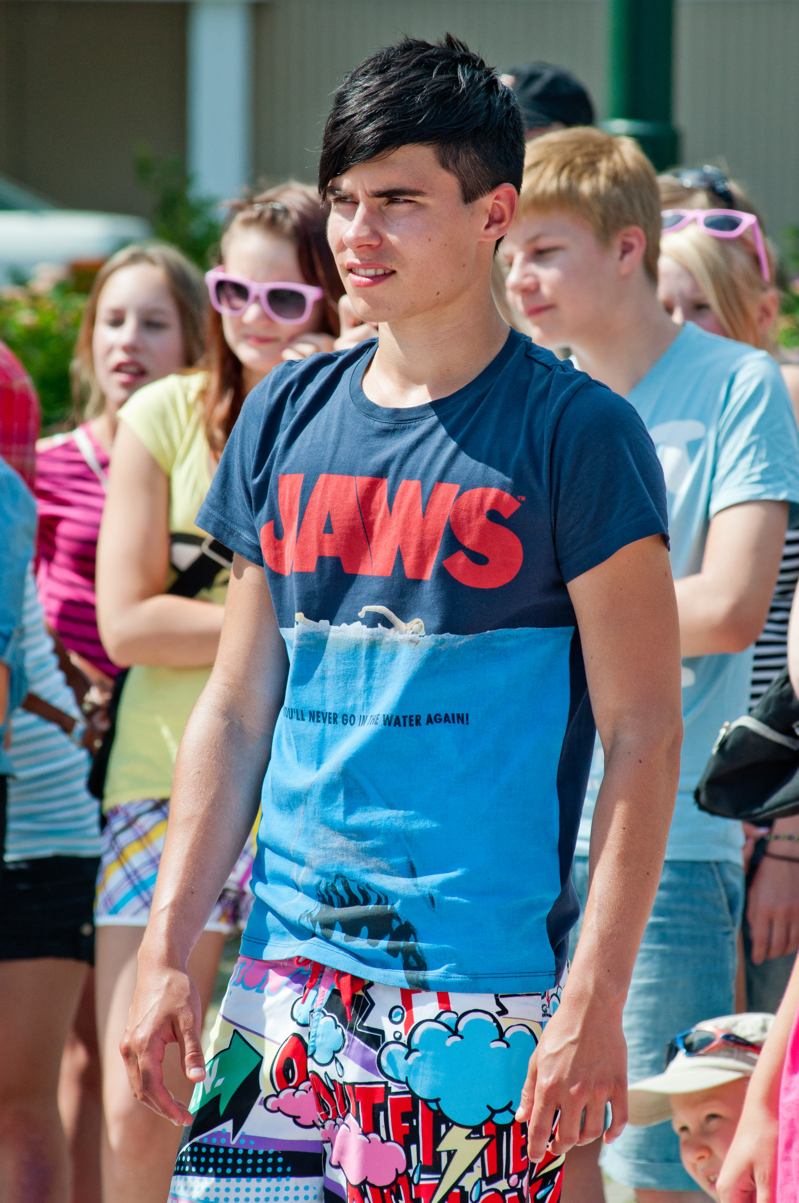 Finnish TV host and musician Kalle Lindroth during the shooting of TV show Summeri in Lappeenranta, Finland.